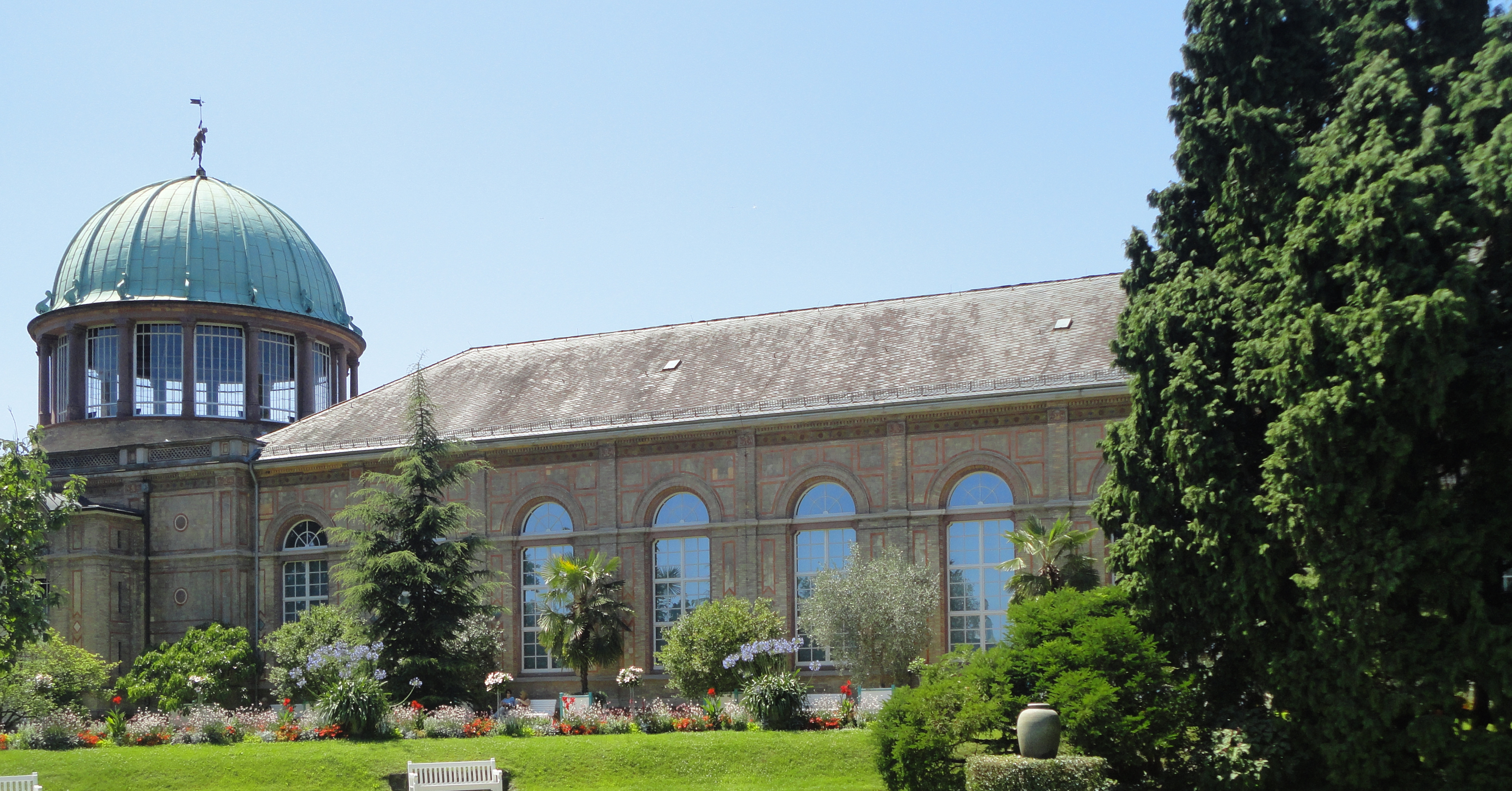 Orangery / State art gallery of Karlsruhe shot from the botanical gardenHrvatski: Zgrada naranči / Državna umjetnička galerija grada Karlsruhe gledajući iz botaničkog vrta